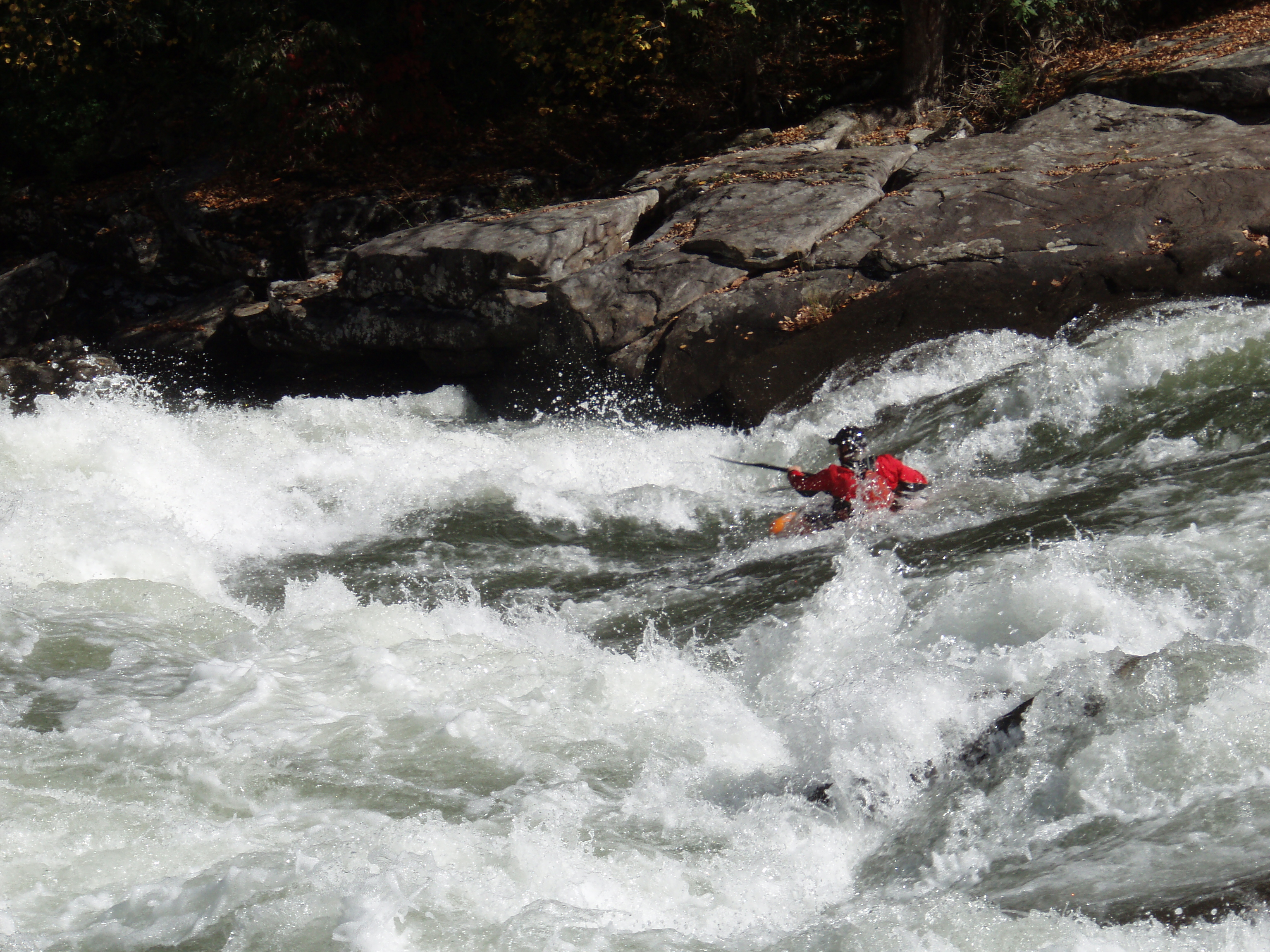 A paddler runs Iron Ring rapid on the Upper Gauley.